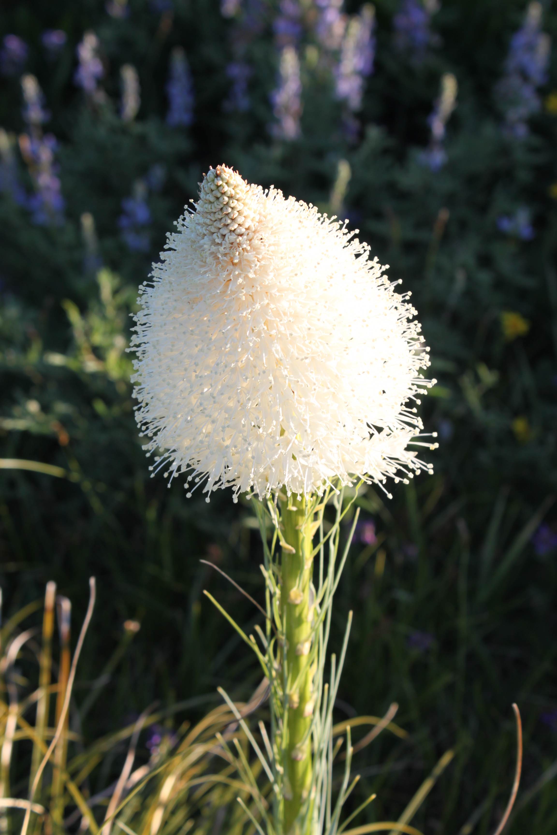 A quick afternoon trip to Mt. Coffin, Salem, Oregon.